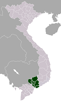 Southeastern Region map of Vietnam